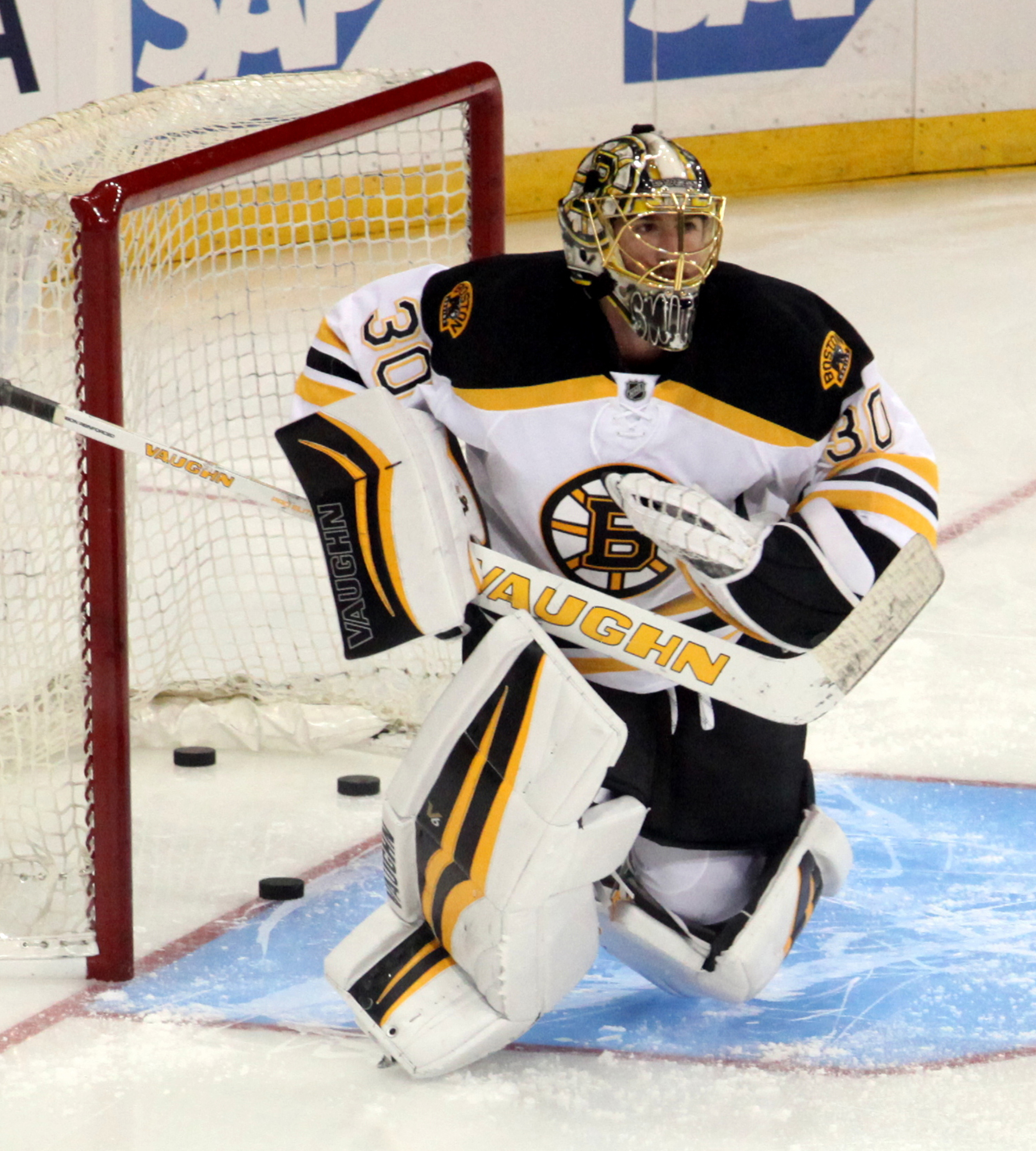 Smith in September 2015.